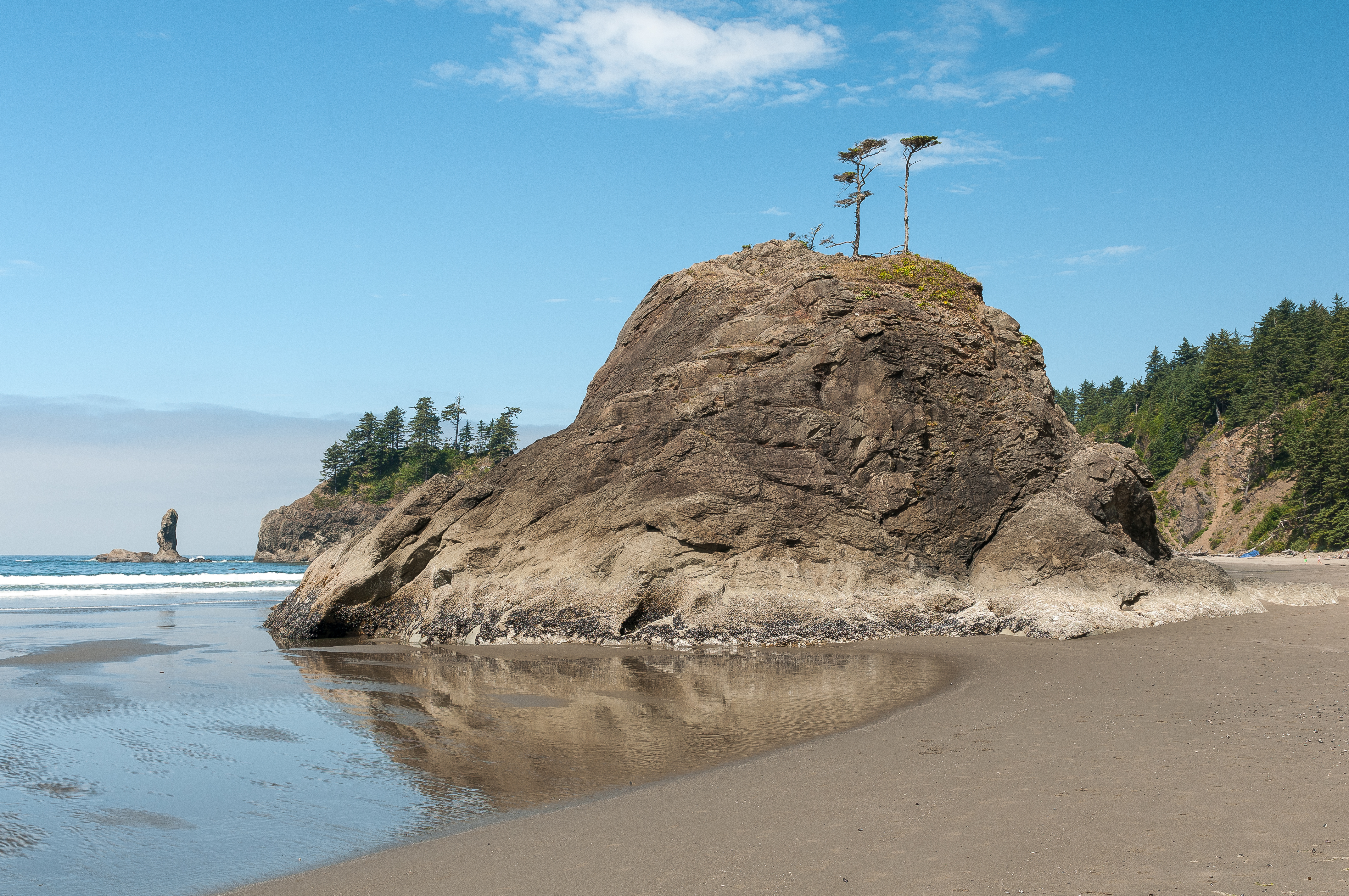 This beach is near the most western point of the continental United States and is located along the Pacific Coastline (Washington State).